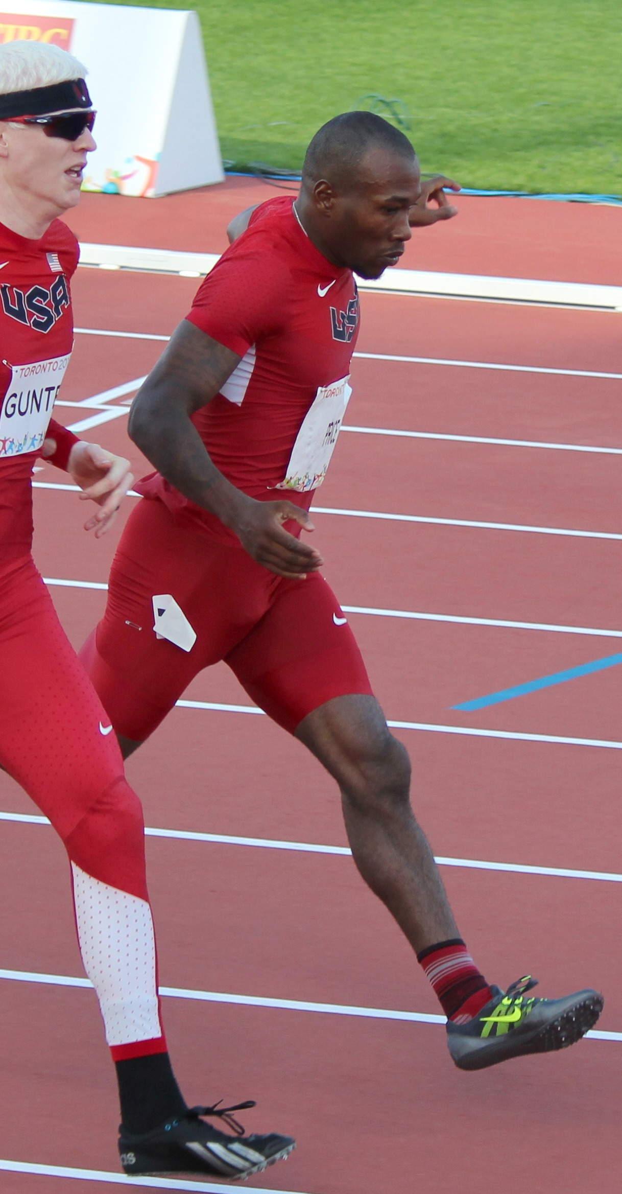 Tyson Gunter and Markeith Price